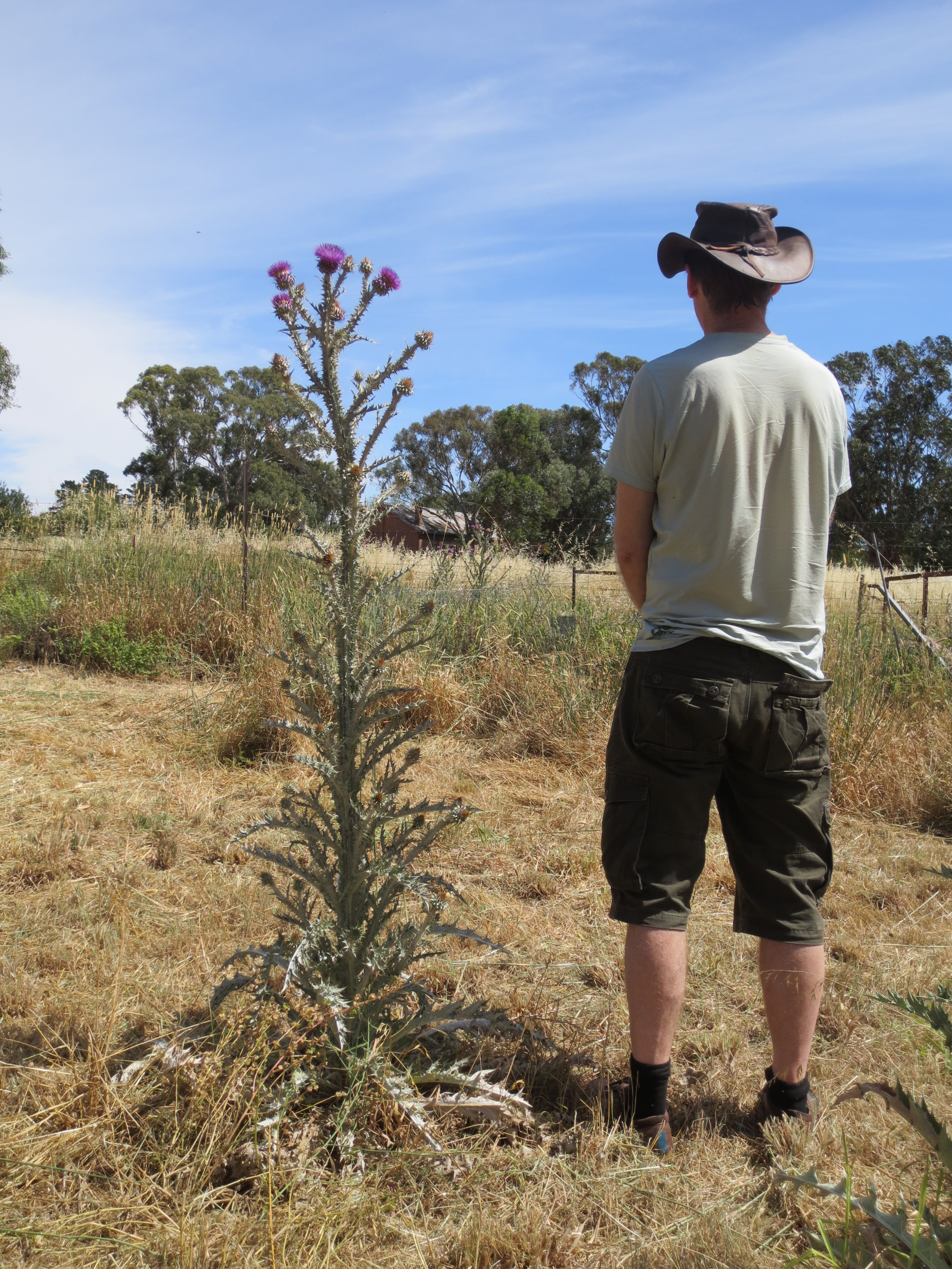 Mature Cotton Thistle Onopordum acanthium about 1.8 metres tall (person for scale) village block Galong New South Wales